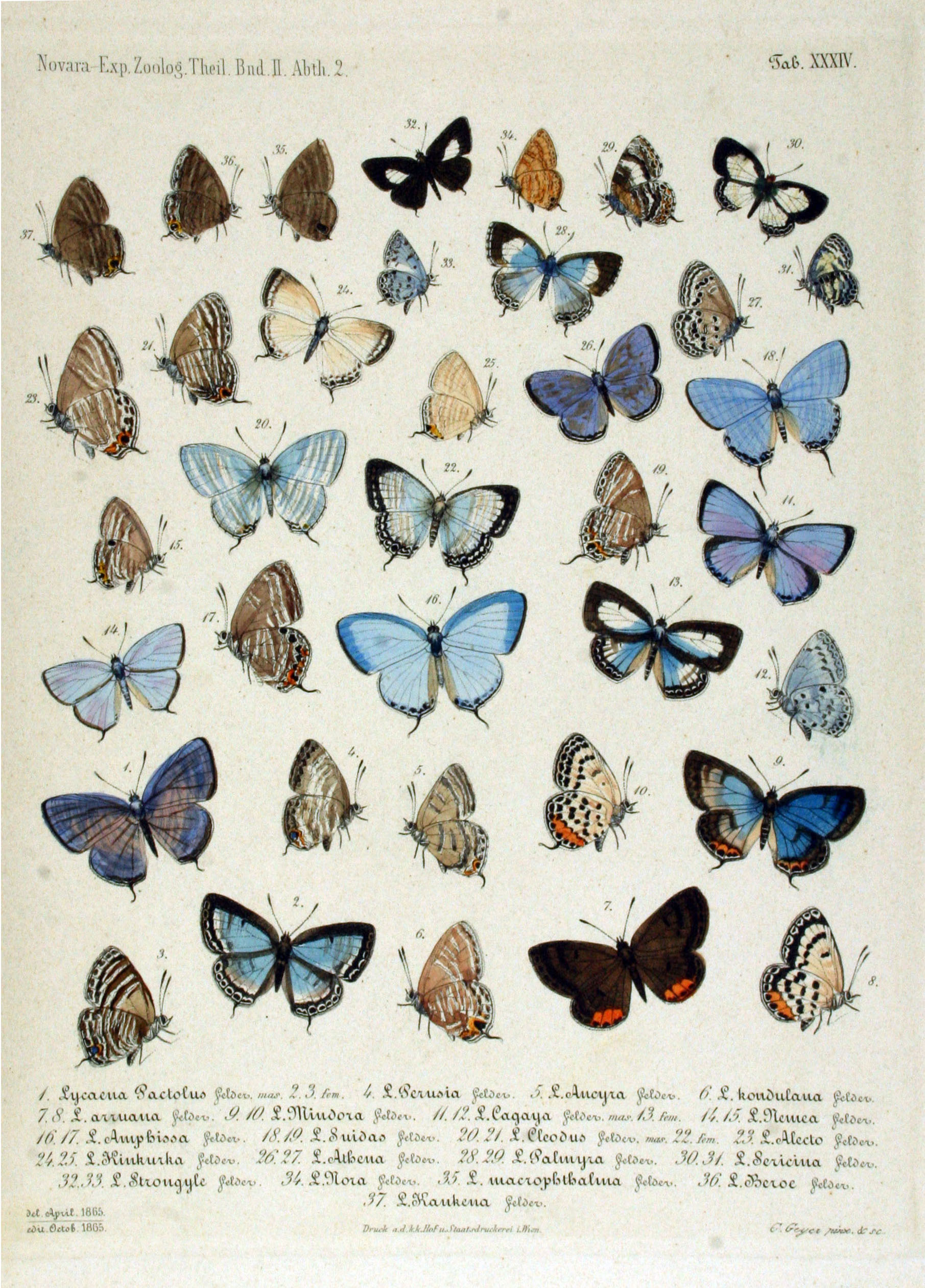 Reise der Österreichischen Fregatte Novara um die Erde in den Jahren 1857, 1858, 1859 unter den Befehlen des Commodore B. von Wüllerstorf-Urbair. (1864) Zoologischer Theil. 2. Band. Zweite Abteilung: Lepidoptera.Tafel XXXIV Lycaena pactolus accepted name Nacaduba pactolus (Felder, 1860) Lycaena perusia accepted name Nacaduba kurava (Moore, [1858]) ssp. perusia (Felder, 1860) Lycaena ancyra Catopyrops ancyra (Felder, 1860) Lycaena kondulana accepted name Jamides alecto (C. Felder, 1860) ssp. kondulana (Felder, 1862) Lycaena arruana valid name in Global Lepidoptera Index Cupido arruana Felder & Felder, 1865 accepted name: Chilades cleotas arruana (funet.fi) Lycaena mindora accepted name Chilades mindora (C. & R. Felder, [1865]) Lycaena cagaya accepted name Acytolepis puspa (Horsfield, [1828]) ssp. cagaya (C. & R. Felder, [1865]) Lycaena nemea accepted name Jamides nemea (Felder, 1860) Lycaene amphissa synonym of Jamides cyta (Boisduval, 1832) Lycaena suidas accepted name Jamides suidas (C. & R. Felder, [1865]) Lycaena cleodus accepted name Jamides cleodus (C. & R. Felder, [1865]) Lycaena alecto accepted name Jamides alecto (C. Felder, 1860) Lycaena kinkurka accepted name Jamides celeno (Cramer, [1775]) ssp. kinkurka (Felder, 1862) Lycaena athena accepted name Chilades lajus (Stoll, [1780]) ssp. athena (C. & R. Felder, [1865]) Lycaena palmyra accepted name accepted name Erysichton palmyra (Felder, 1860) Lycaena sericina accepted name Nacaduba sericina (C. & R. Felder, [1865]) Lycaena strongyle accepted name Megisba strongyle (Felder, 1860) Lycaena nora accepted name Prosotas nora (Felder, 1860) Lycaena macrophthalma accepted name Nacaduba pactolus (Felder, 1860) sp. macrophthalma (Felder, 1862) Lycaena beroe accepted name Nacaduba beroe (C. & R. Felder, [1865]) Lycaena kankena accepted name Jamides kankena (Felder, 1862)